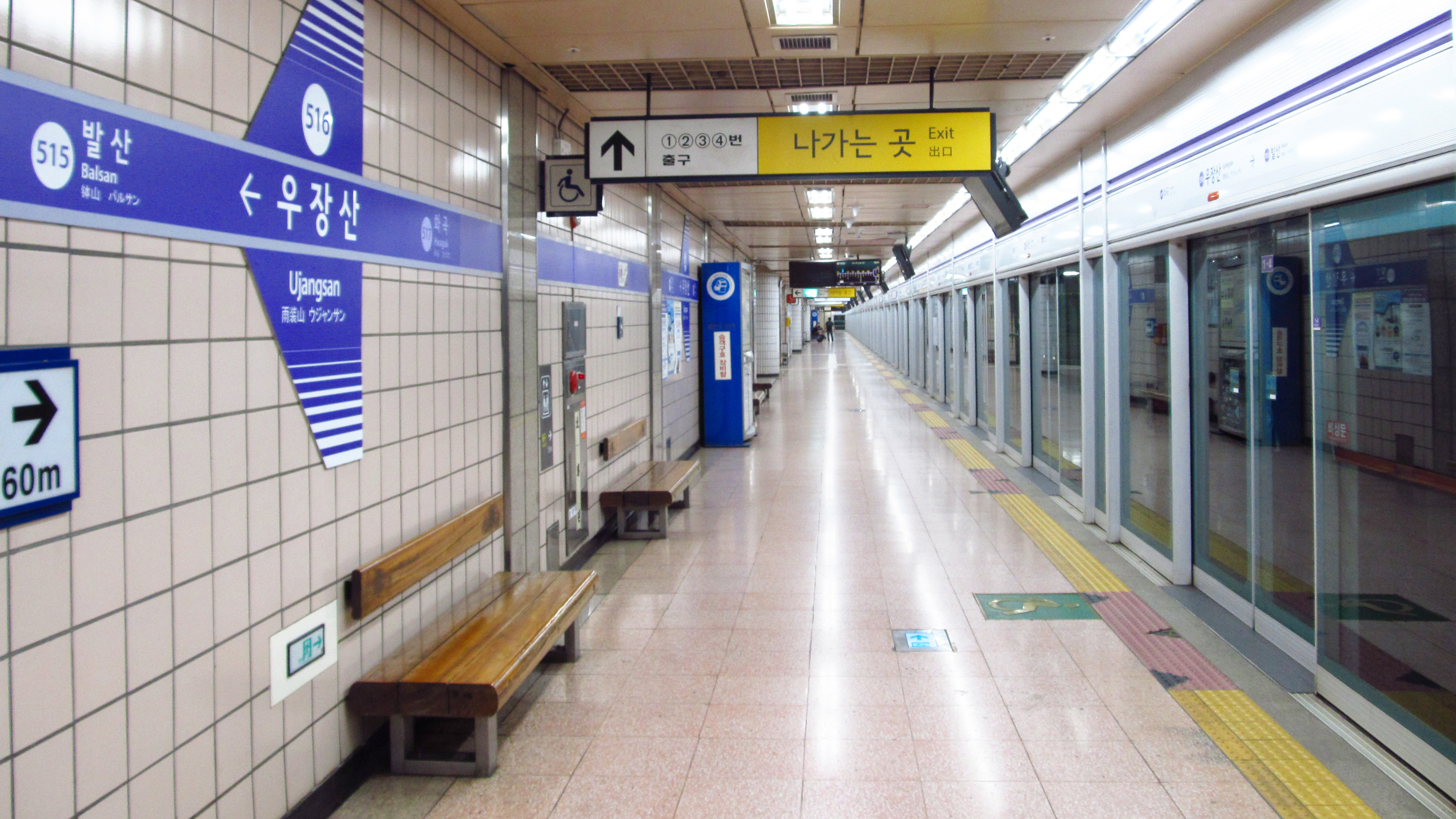 The platform at Ujangsan Station on Seoul Subway Line 5 in Gangseo-gu, Seoul, Republic of Korea(South Korea)